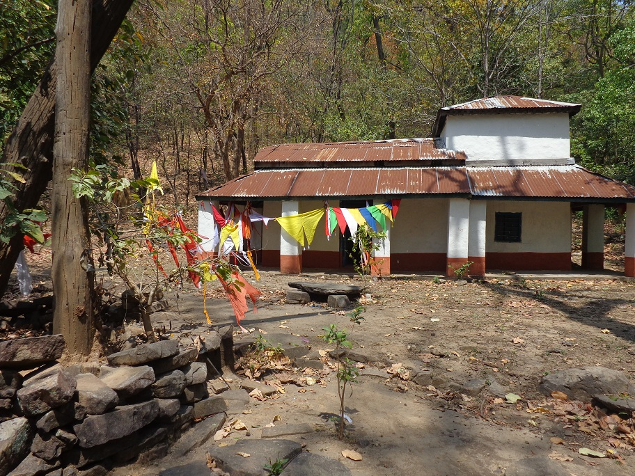 नेपाल भाषा: Parcin Baijnath mandir